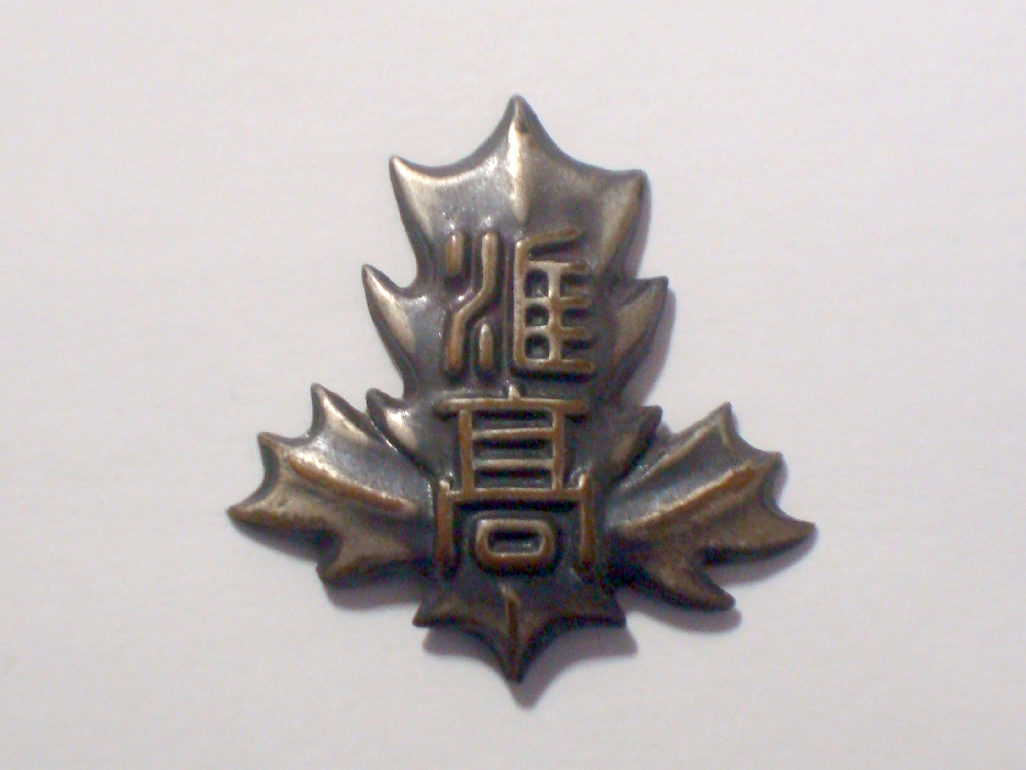 The school badge of Aichi Prefectural Ishin High School